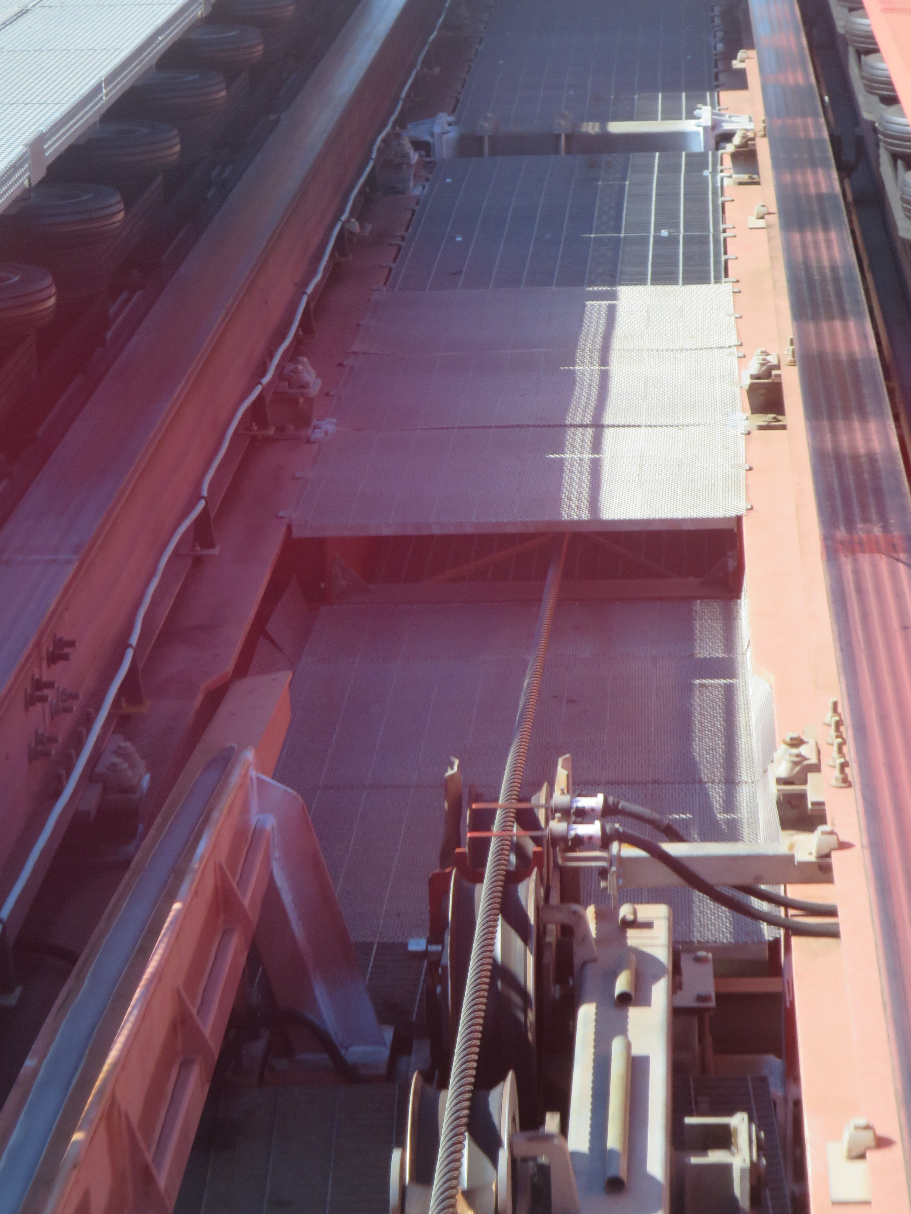 Point of traction Change from wire to rubber wheels when entering a station